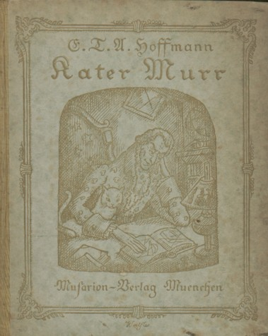 Book cover of ETA Hoffmann "Lebensansichten des Katers Murr" 1920